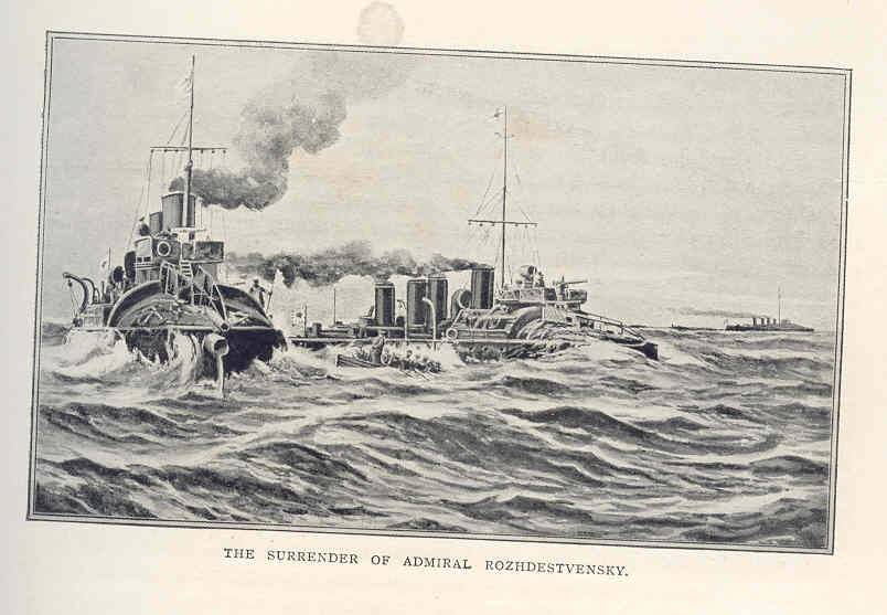 Surrender of admiral rozhestvenskii